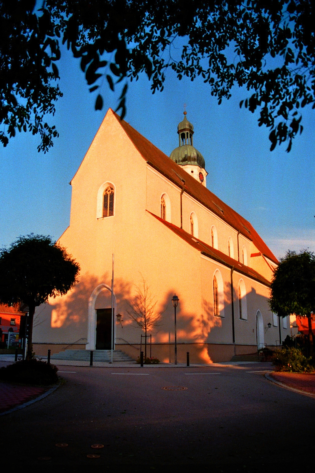 Roman catholic Saints Peter and Paul Parish Church (Pfarrkirche St. Peter und Paul) in Pöttmes, District Aichach-Friedberg, Bavaria, Germany.